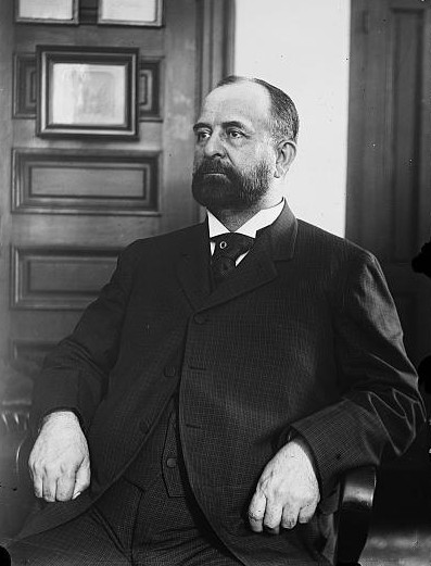 Augustus Van Wyck, Democrat Party politician, New York State Supreme Court Judge